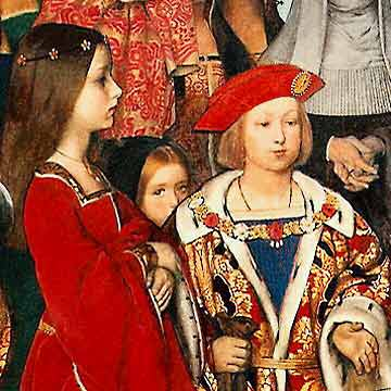 Erasmus of Rotterdam visiting the children of Henry VII at Eltham Palace in 1499 and presenting Prince Henry (the future Henry VIII) with a written tribute. Detail of oil painting in the East Corridor of the Palace of Westminster, London.